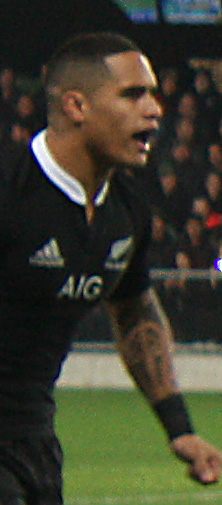 Aaron Smith (number 9) playing for All Blacks vs England at Forsyth Barr Stadium, Dunedin. 14th June 2014